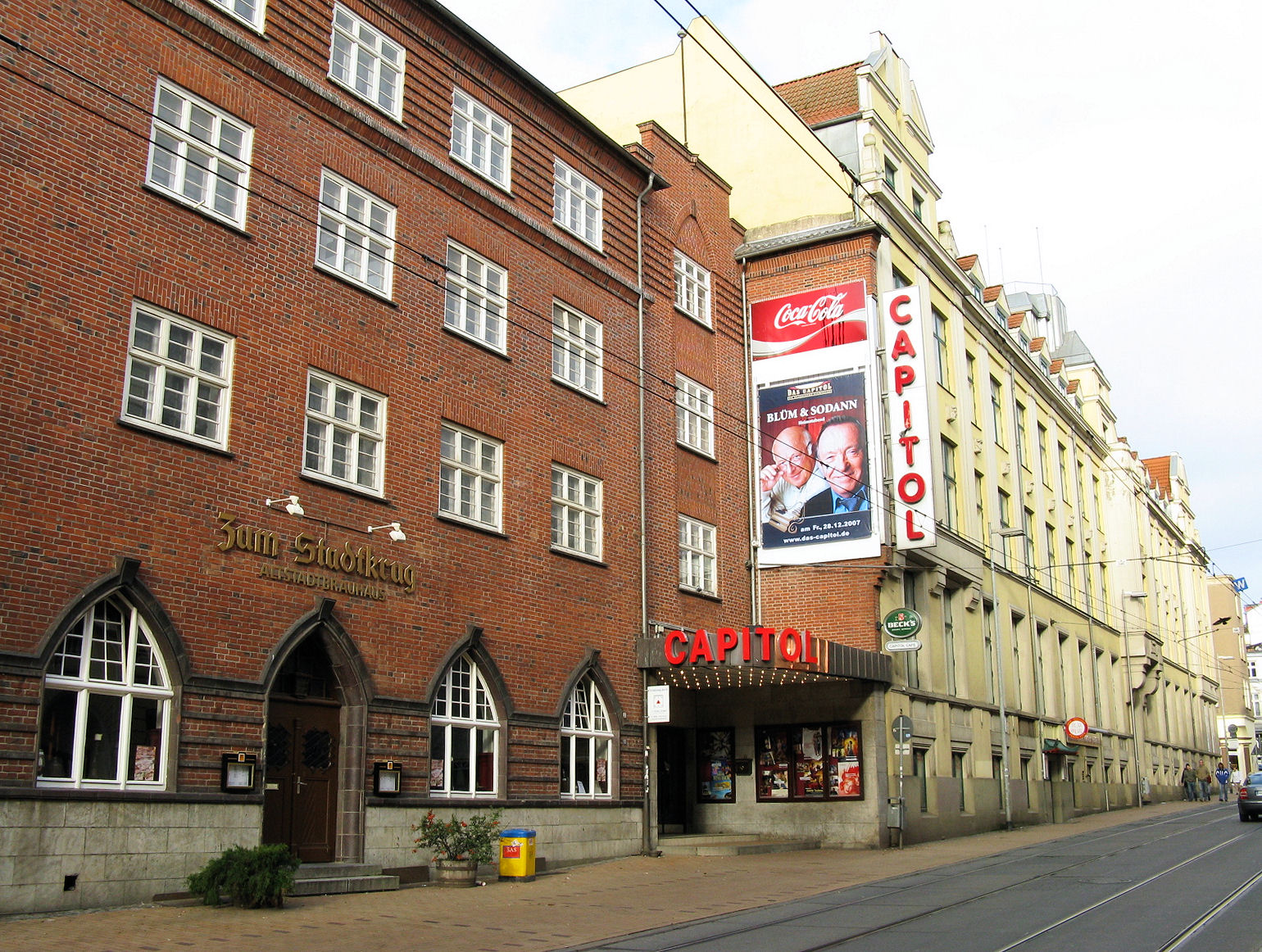 Capitol (cinema) and Stadtkrug (inn) in Schwerin, Mecklenburg-Vorpommern, Germany